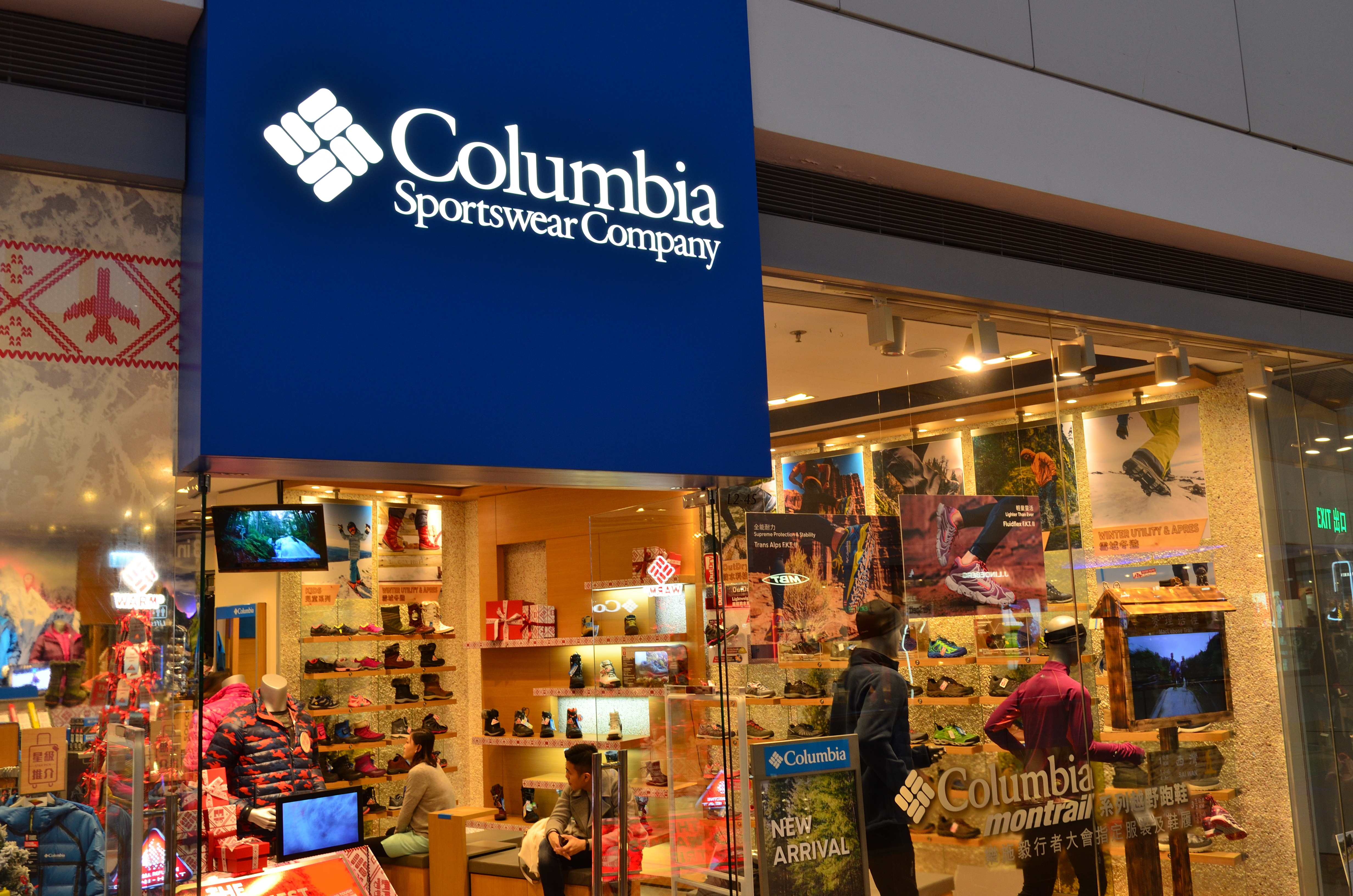 Columbia at Festival Walk